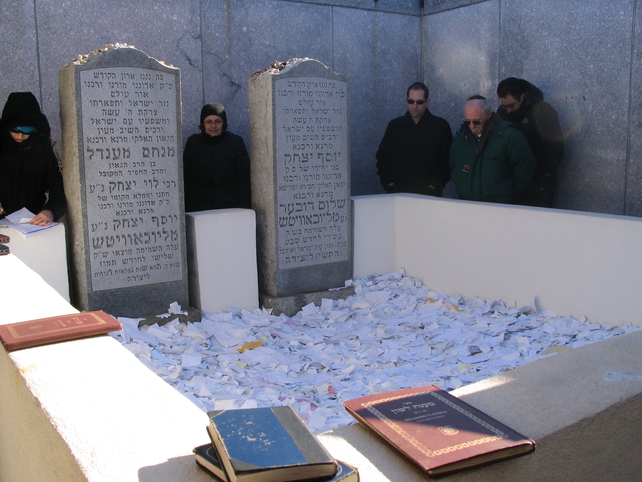 The gravesite of the rabbi of Lubavitch